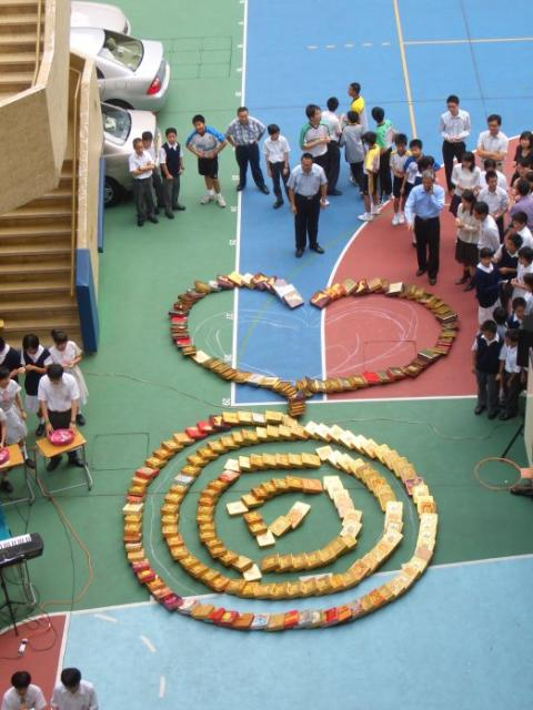 YOTTKP 3A